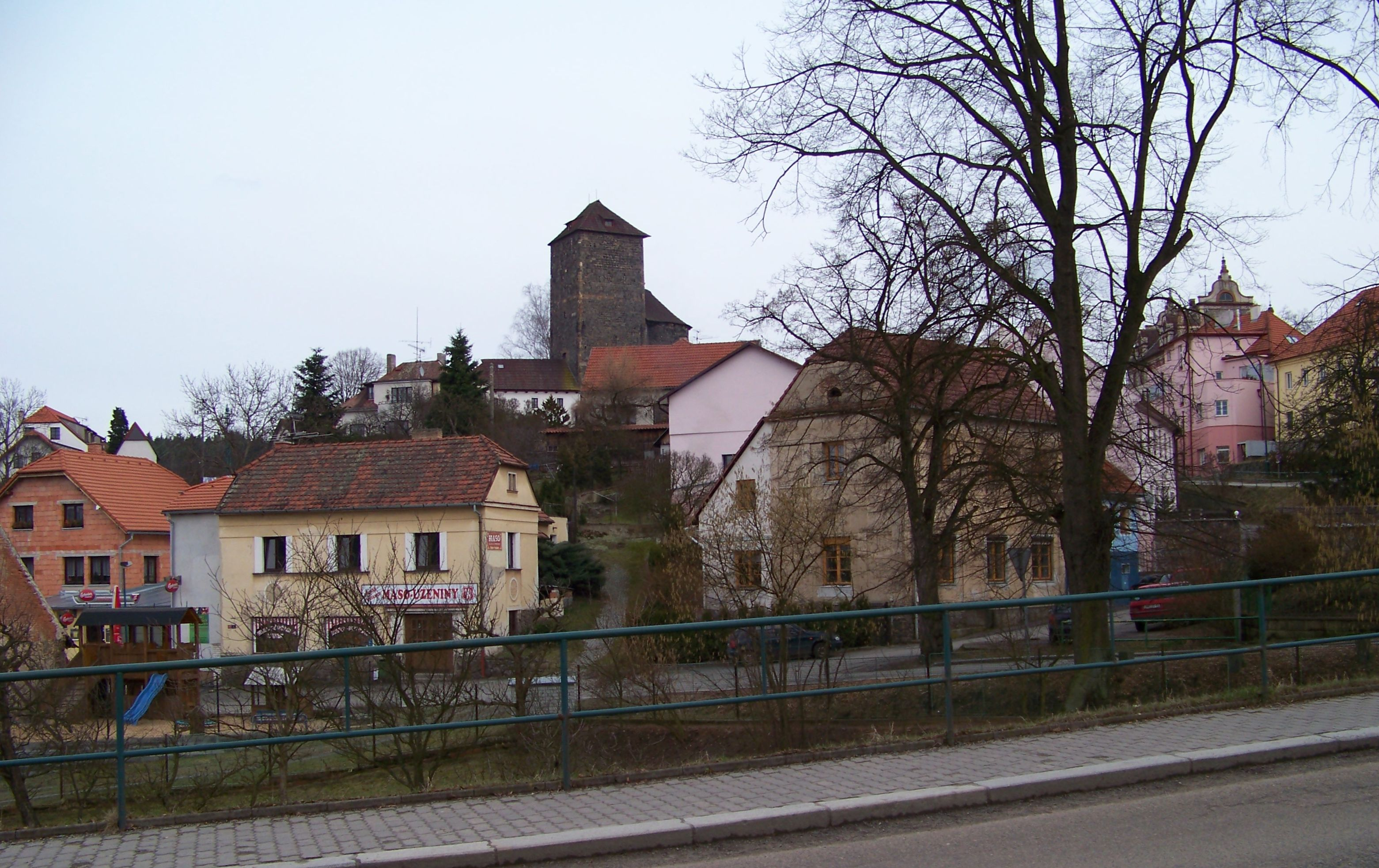 Týnec nad Sázavou, the Czech Republic.